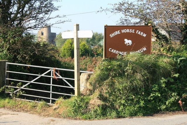 On the Great Flat Lode Trail The museum sign is a few hundred metres before the actual museum. The engine house is Daubuz's engine house of South Wheal Francis.